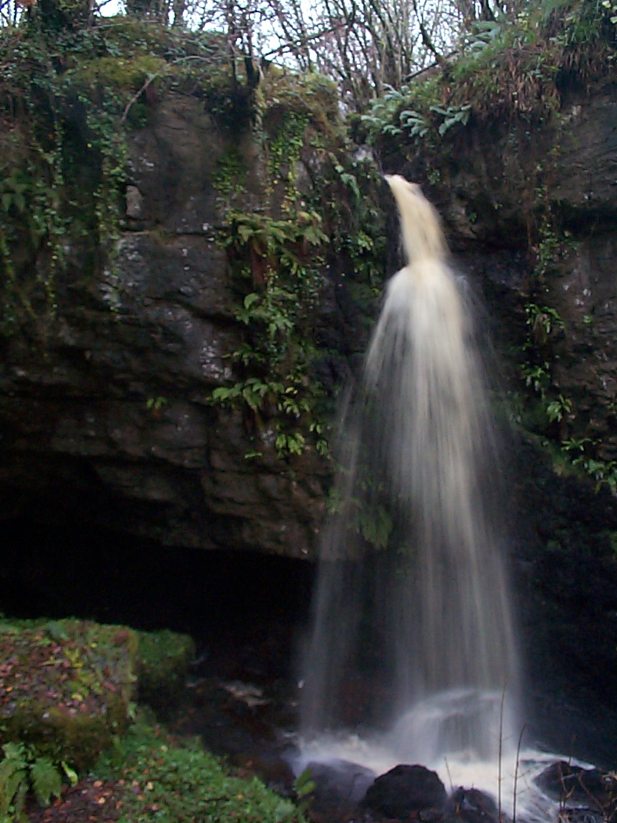 Photograph of the entrance to cave Pollnagollum Coolarkan (or Coolarkin), County Fermanagh and adjacent waterfall.